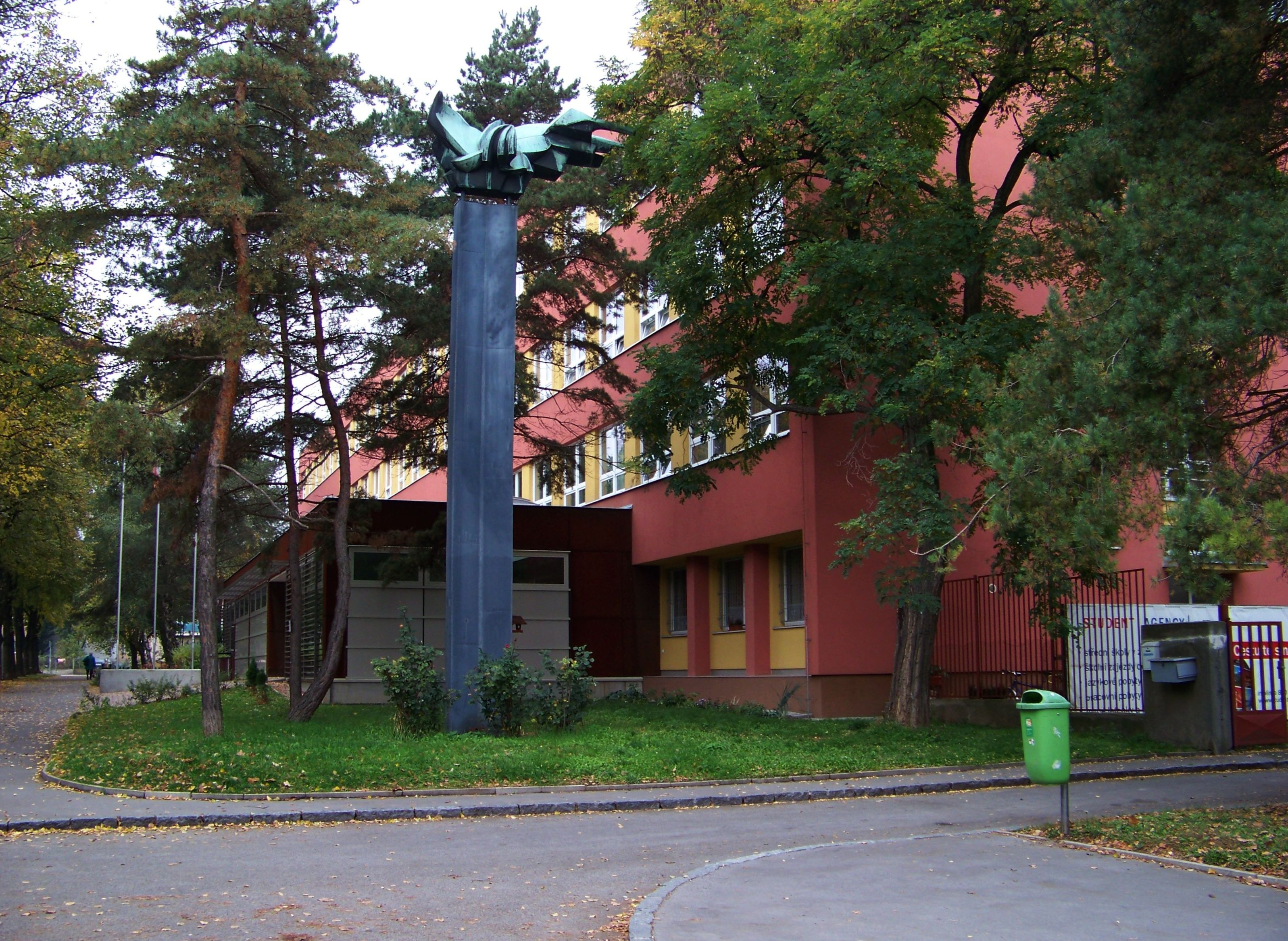 Prague-Břevnov, the Czech Republic. Petřiny Housing Estate, Nad alejí 1952/5, a gymnasium. - OpenStreetMap(Info)